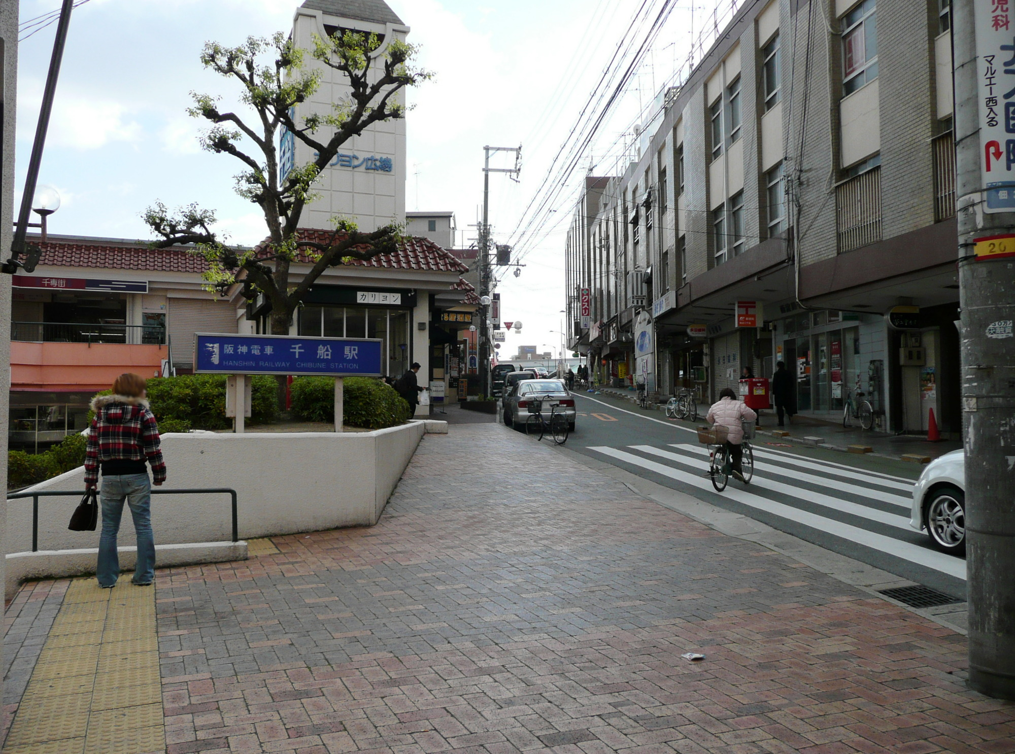 Hanshin Electric Railway,Main Line,Chibune Station west plaza. /阪神本線千船駅西口駅前風景